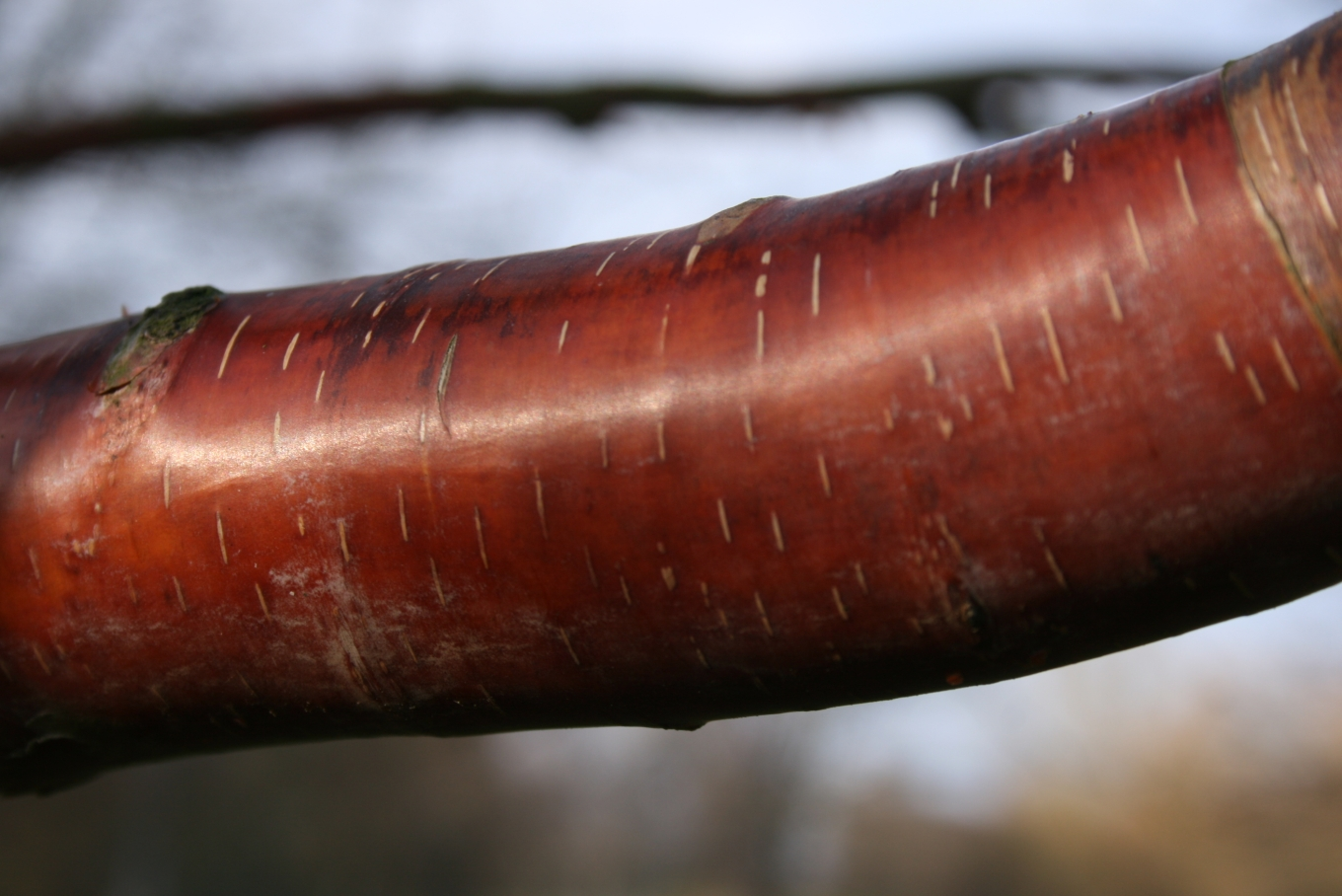 Betula albosinensis var. septentrionalis: Bark on a young branch